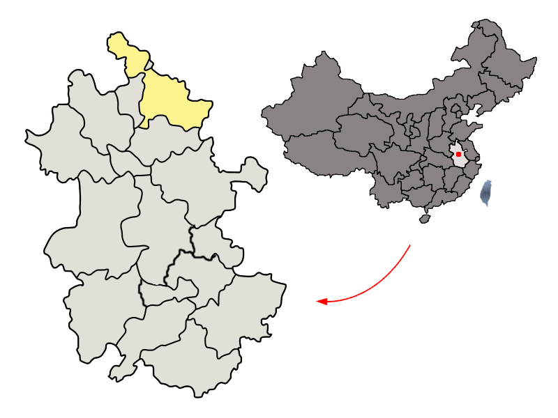 Location of Suzhou Prefecture (yellow) within Anhui Province of China Map drawn in december 2007 using various sources, mainly : Anhui Province administrative regions GIS data: 1:1M, County level, 1990 Anhui Counties map from